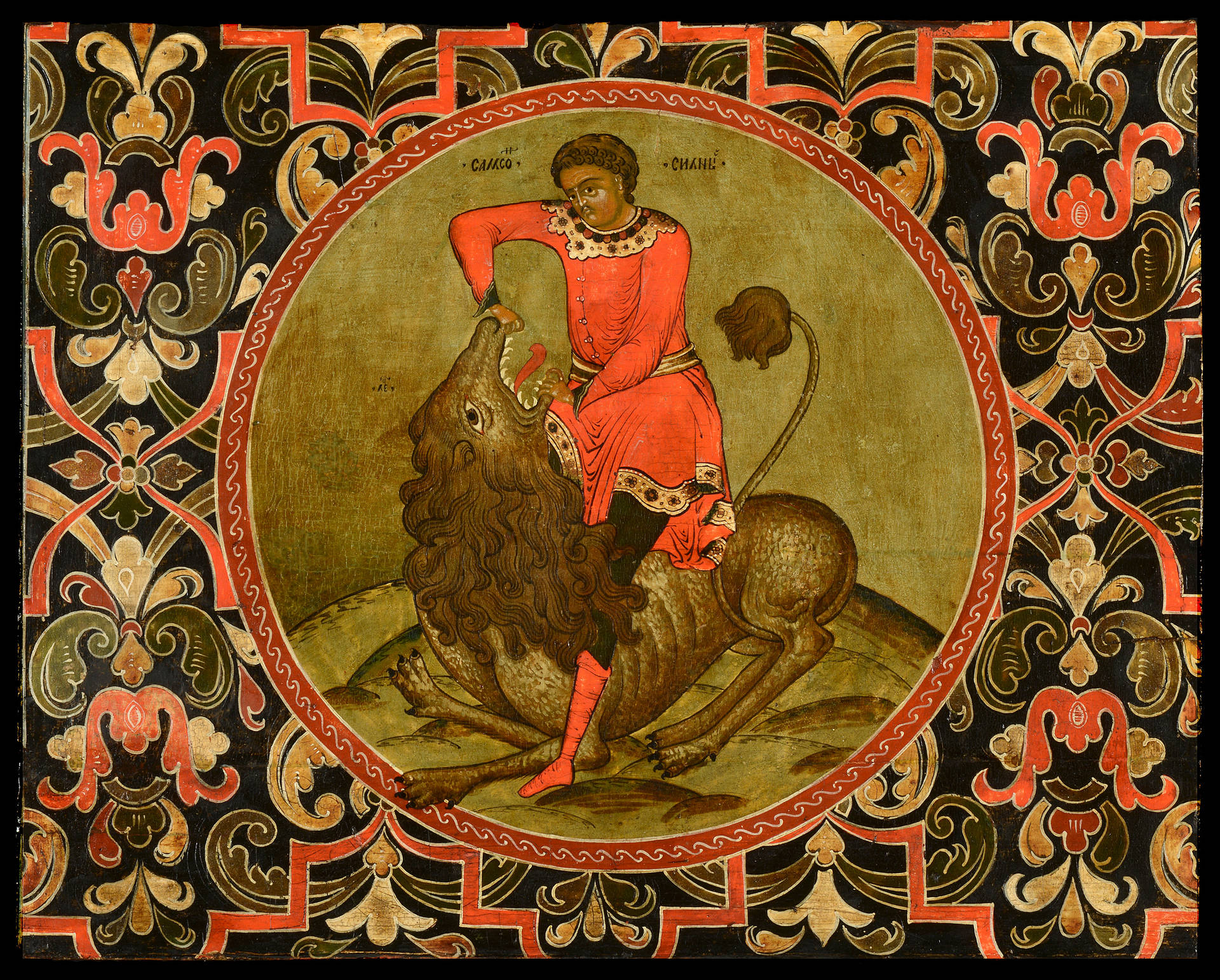 Samson Fighting the Lion. Within a medallion Samson is represented against an olive green background, wrestling the lion and tearing open the mouth with his bare hands. The scene is surrounded with decorative floral ornamentation, executed in bright colours. Samson and the Lion is a very rare subject in Russian icon painting. This early example comes from the row with old testament scenes, situated below the local row of an iconostasis. The style of the painting points towards an origin from the Kargopol region.